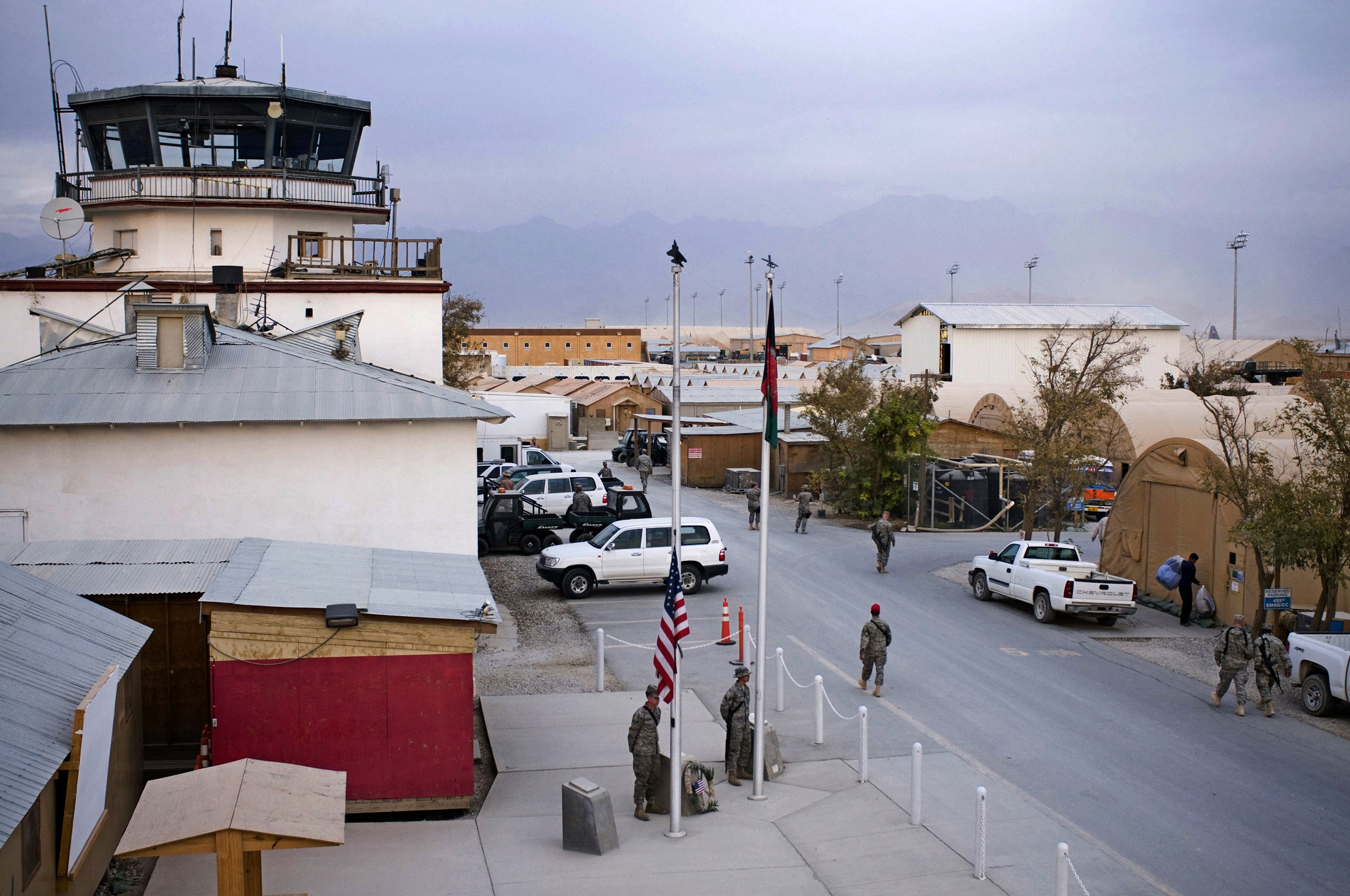 Veterans Day Silent Vigil; Staff Sgt. Keith Nelms and Airman 1st Class Peter Chapman of the 455th Expeditionary Aircraft Maintenance Squadron hold silent vigil by the Camp Cunningham flagpoles at Bagram Air Field, Afghanistan, Nov. 11. The Airmen held 10-minute shifts allowing most of the Airmen in the 455th Air Expeditionary Wing the honor of standing guard.